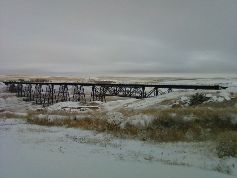 Railroad trestle bridge in Cut Bank, Montana.